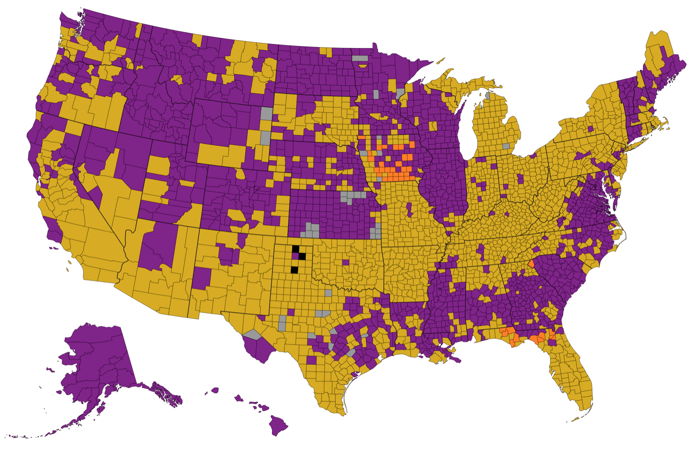 Gold denotes Clinton, purple denotes Obama. Orange denotes Edwards and grey denotes counties which tied in results between candidates. Black denotes counties which didn't have votes. Texas and Washington are shaded in accordance to the second-round caucus held, but never-the-less resulted the same.